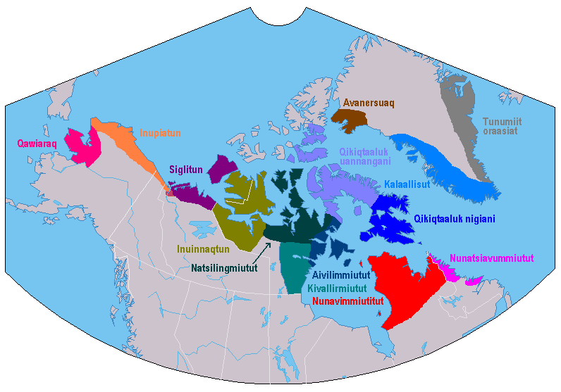 Inuktitut dialect map with labels in Inuktitut inuujingajut or local Roman alphabet. Includes states and provinces. Data from various sources.